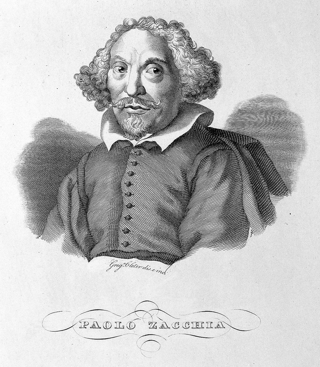 Iconographic Collections